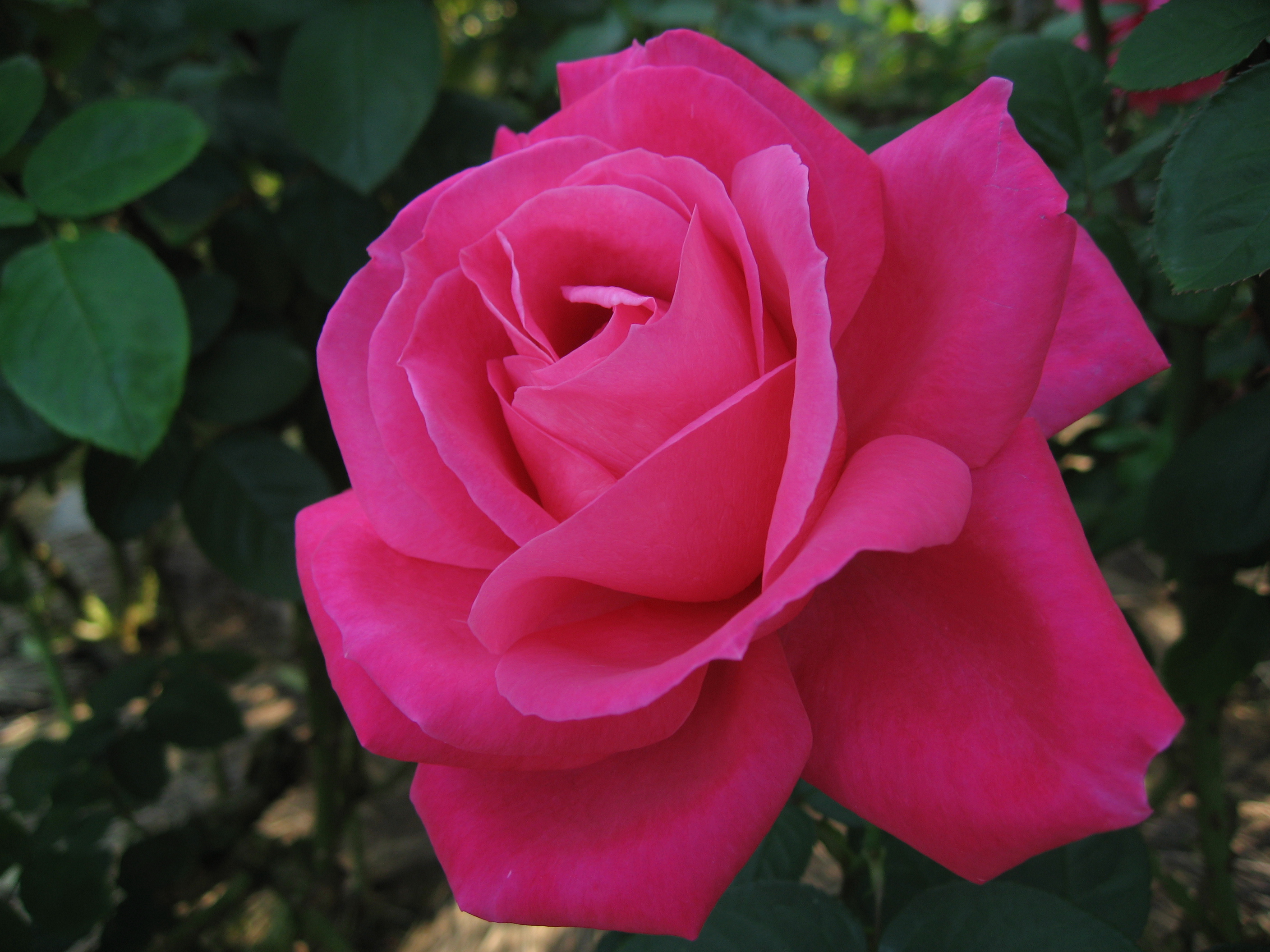 Rosa 'Maria Callas', HT, Meilland (1965), Jingu Rose Garden, Uji-Nakanokiri Ise, Mie Japan.